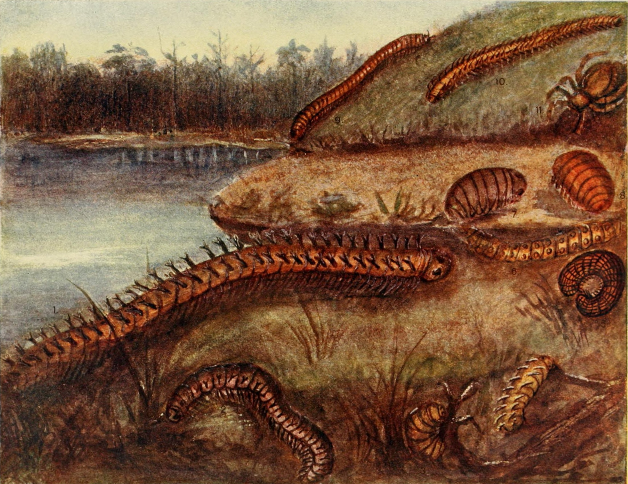 Carboniferous myriapods of Bohemia